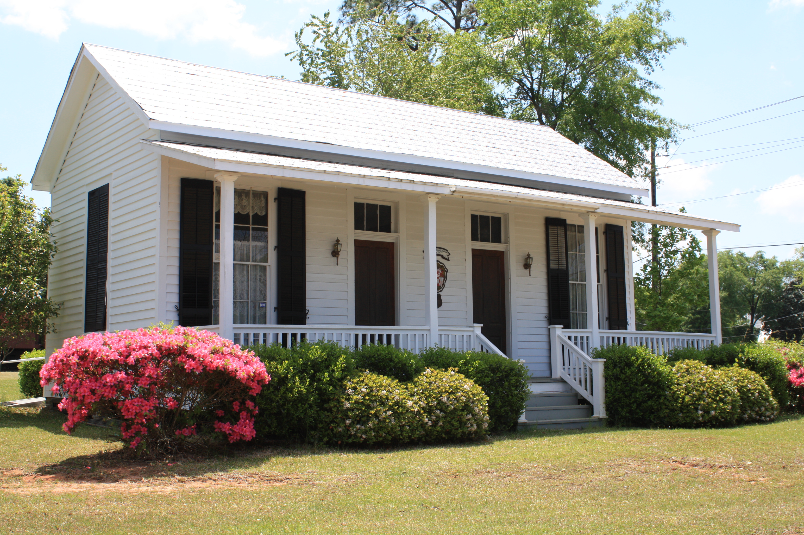 Restored (and relocated) cottage from the Hygeia Hotel and Sanatorium in Citronelle, Alabama, United States. Located adjacent to the Railroad Depot in the Citronelle Railroad Historic District (on the National Register of Historic Places). This cottage was built in 1884, the hotel and sanatorium was established in 1877.